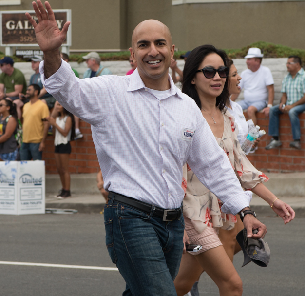 Neel Kashkari marching in the 2014 San Diego LGBT Pride Parade.jpg